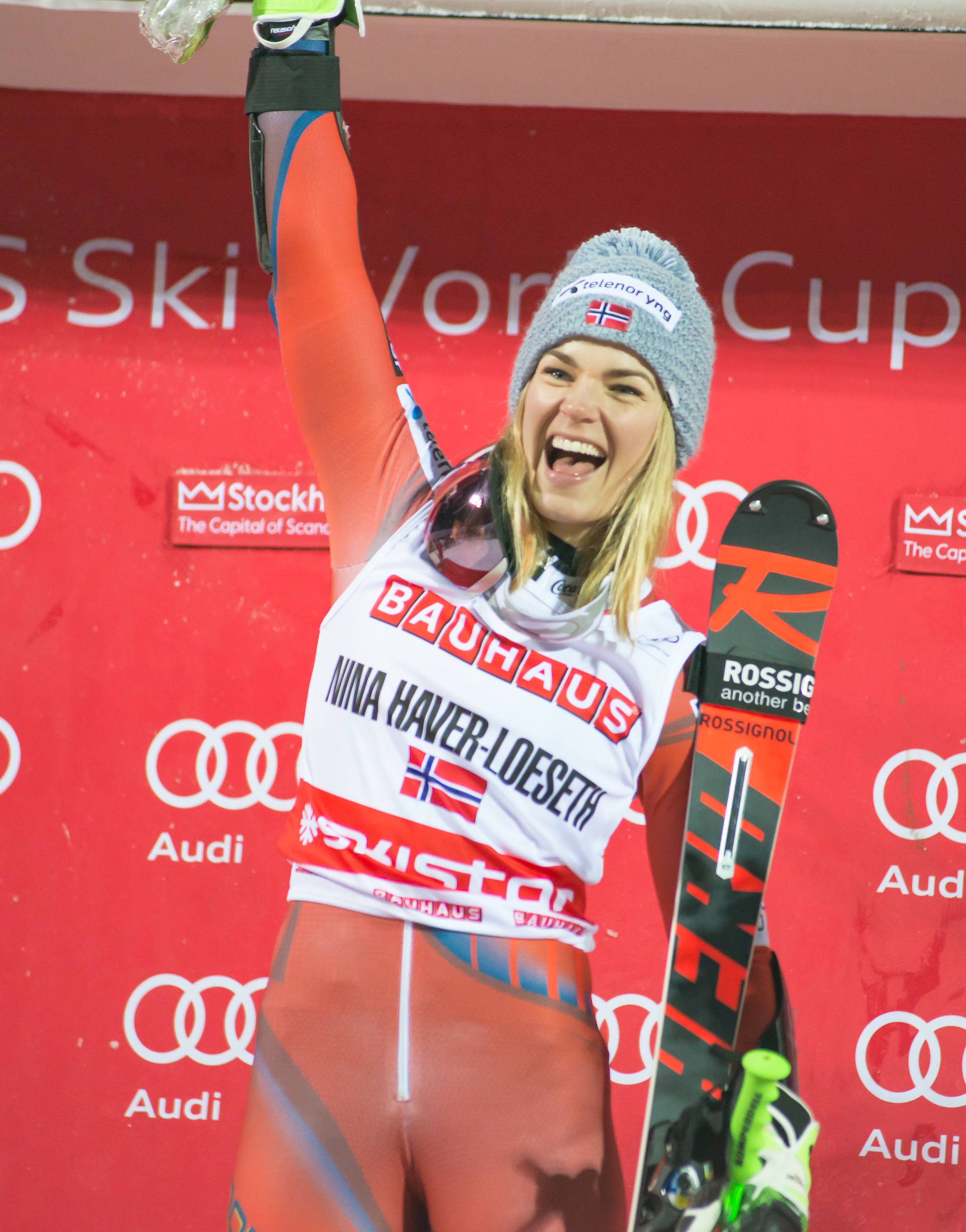 The winner, Nina Haver-Loeseth Photo by Roland Osbeck